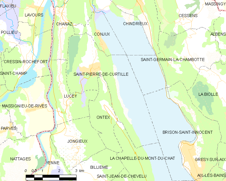 Map of French municipality Saint-Pierre-de-Curtille